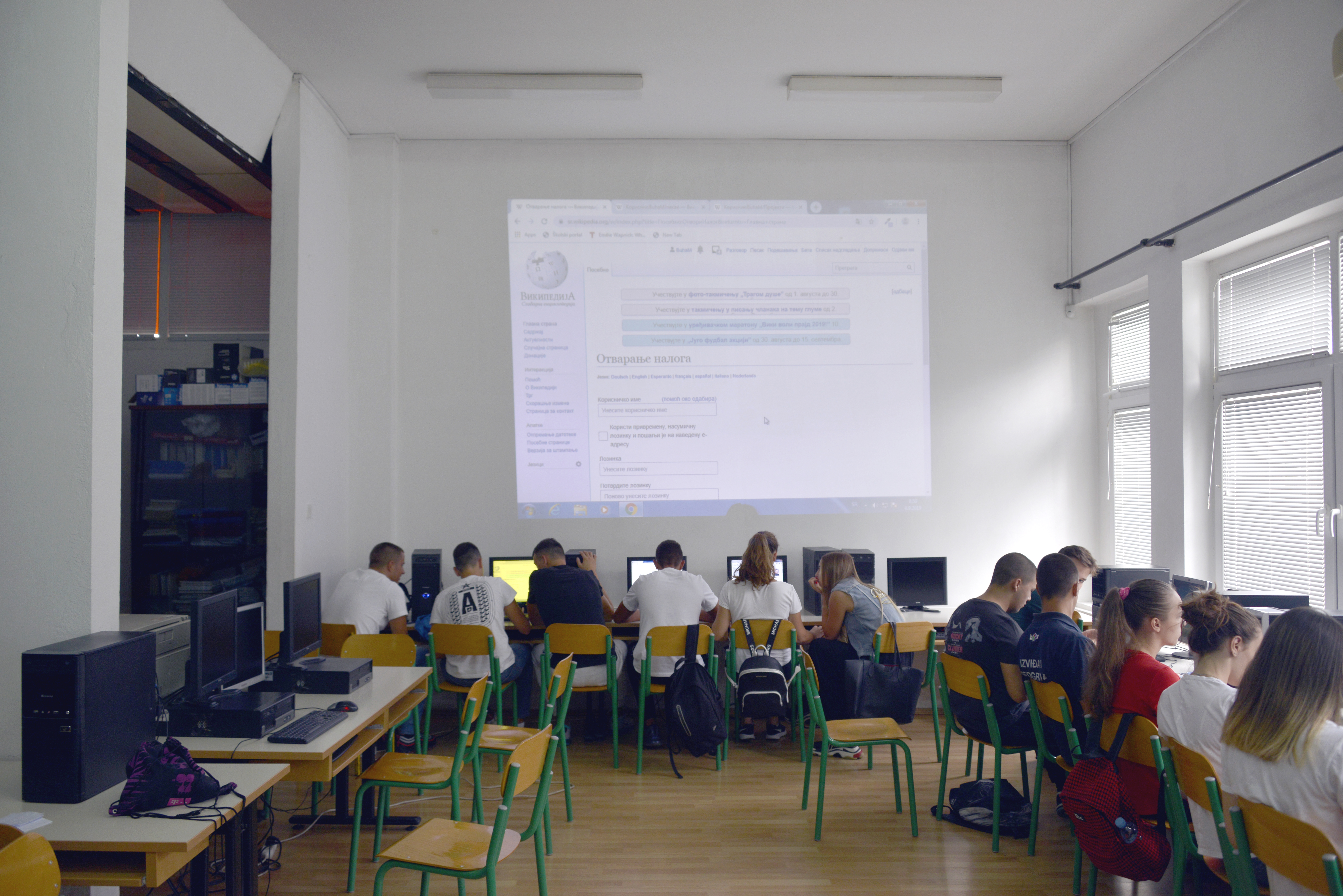 IT classroom in the High school "Danilo Kiš" in Budva (Montenegro) - Wikipedia Editing Workshop